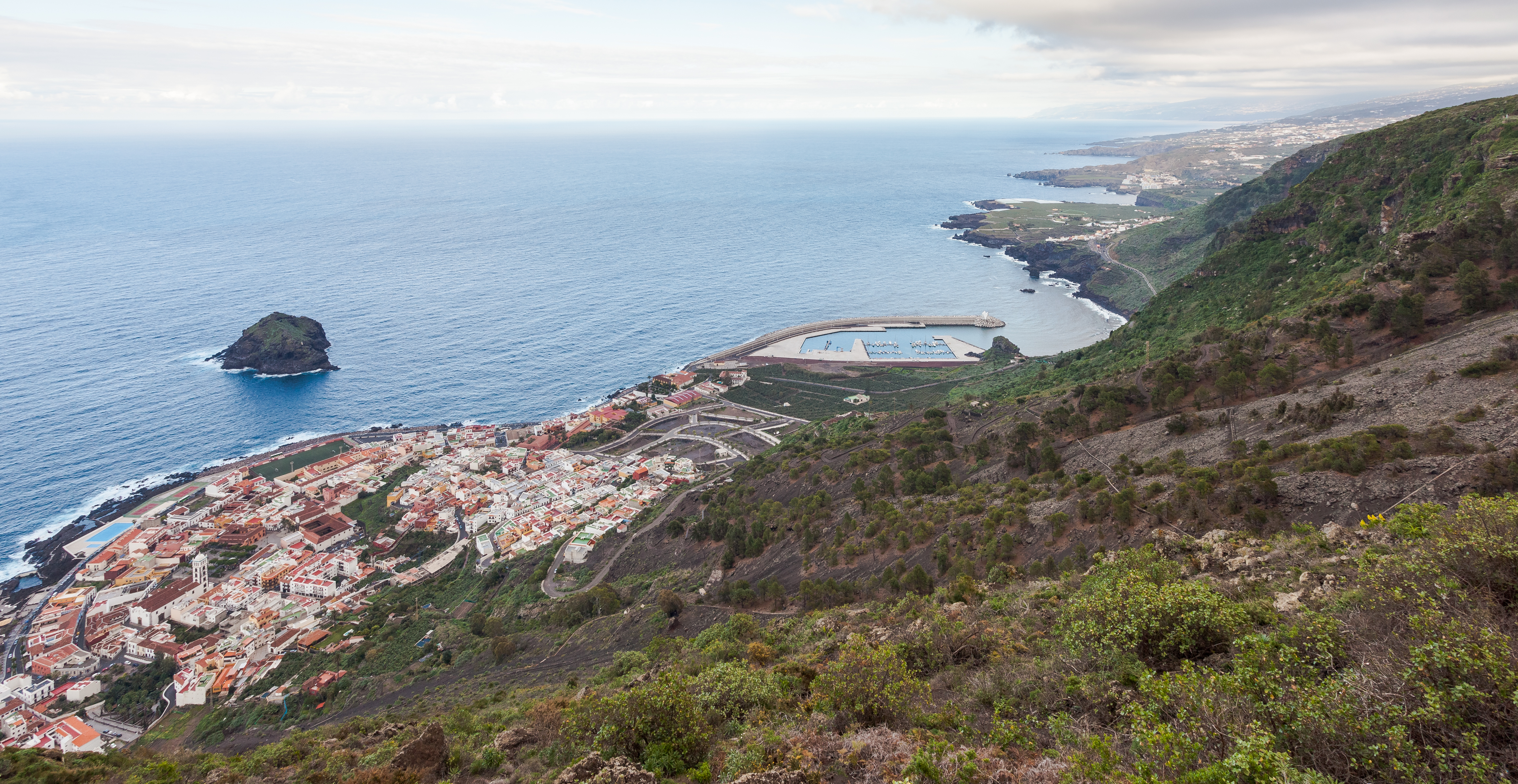 View of Garachico, Tenerife, Spain